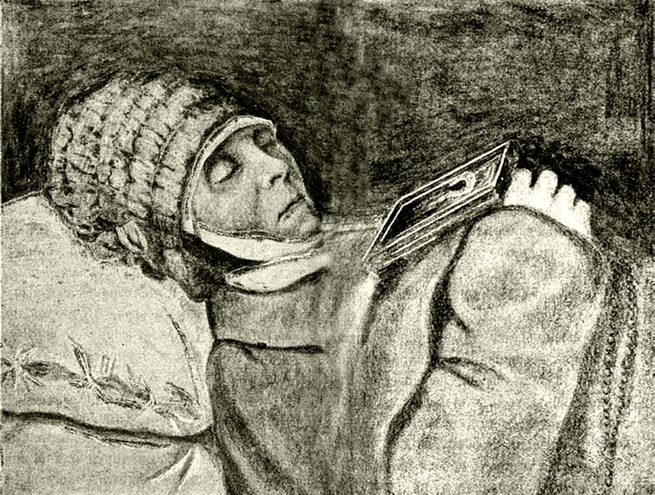 Vera the Silent, portrait made on the third day after her death